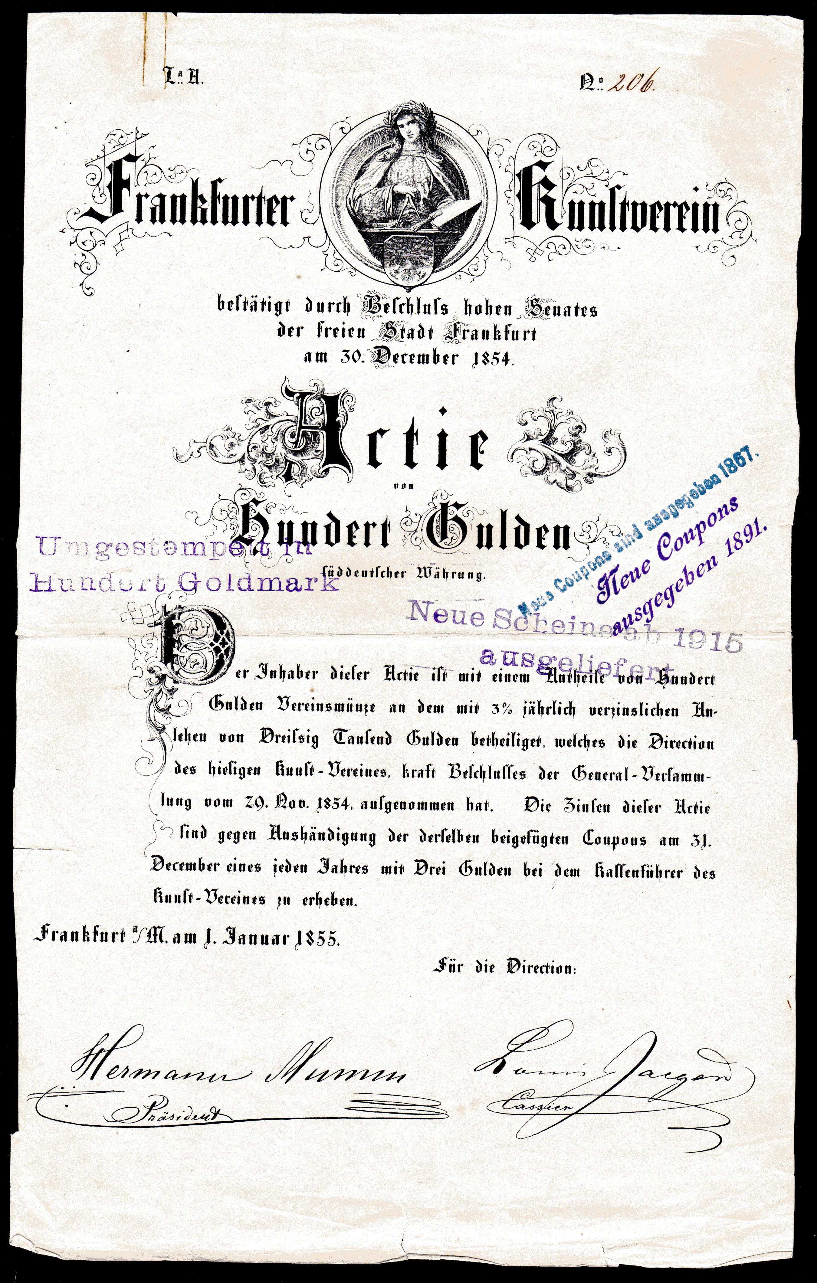 Share of the Frankfurter Kunstverein, issued 1. January 1855